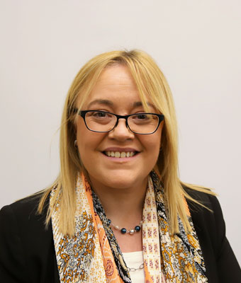 Irish politician Sorca Clarke of Sinn Féin, taken in 2020